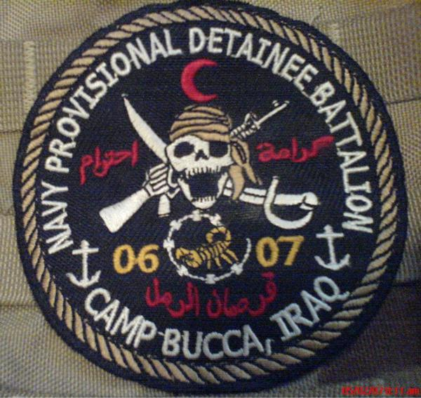 NPDB2